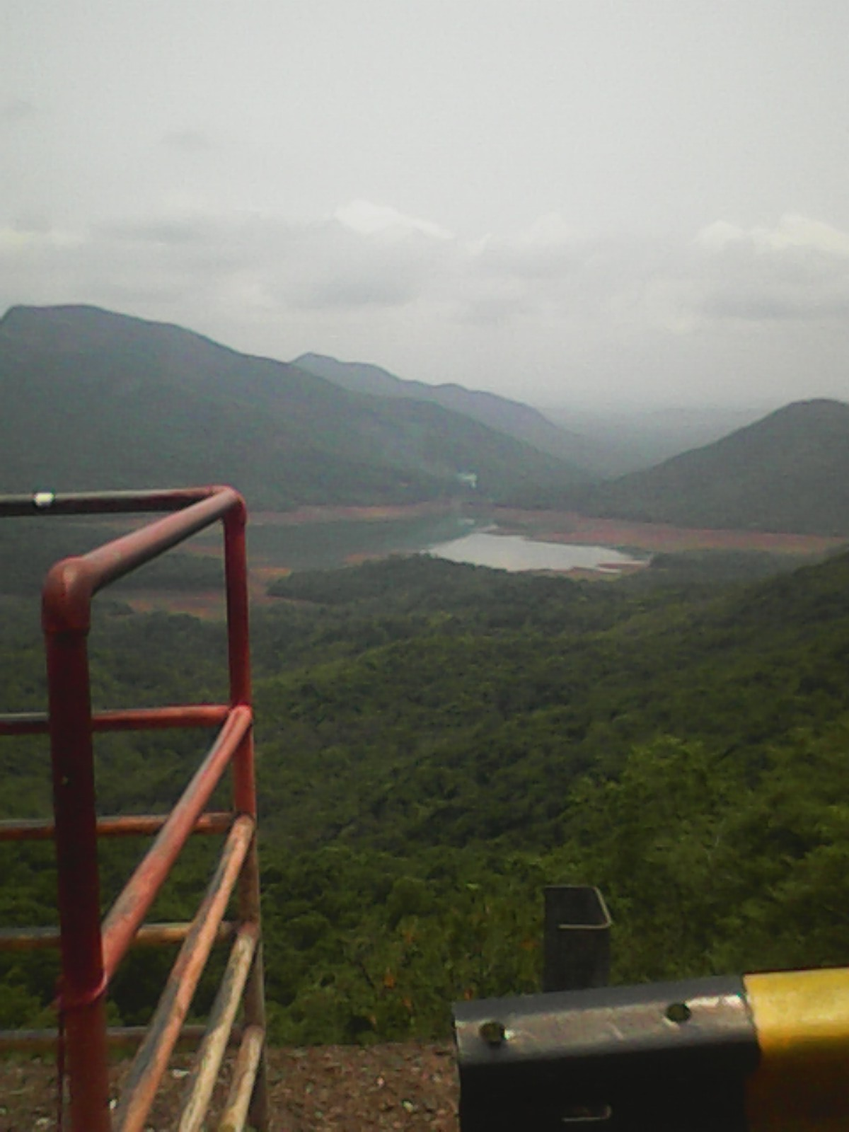 view point, chorla ghat.